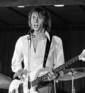 The Bee Gees in Dutch television show Twien (1968)